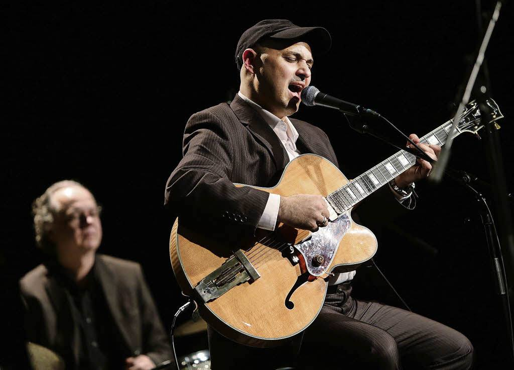 Ismael Reinhardt Foto Live